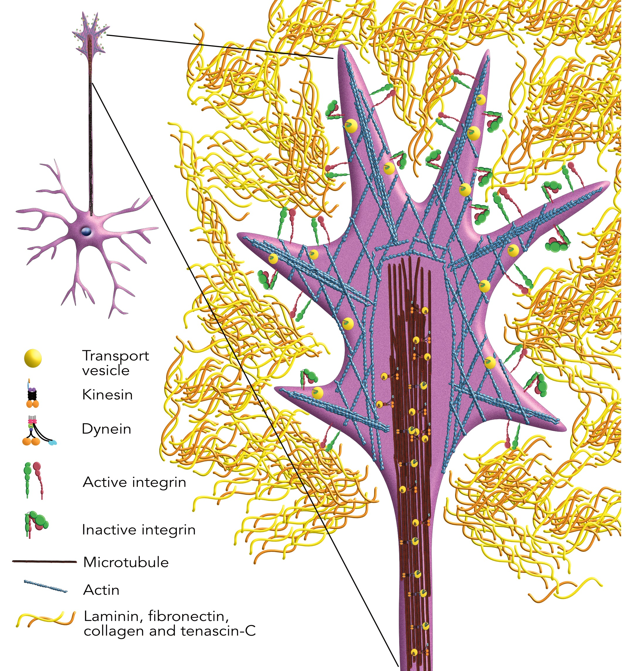 Integrins are localised at the growth cone of regenerating neurons. © Nieuwenhuis, B., Haenzi, B., Andrews, M. R., Verhaagen, J. and Fawcett, J. W. (2018), Integrins promote axonal regeneration after injury of the nervous system. Biol Rev.